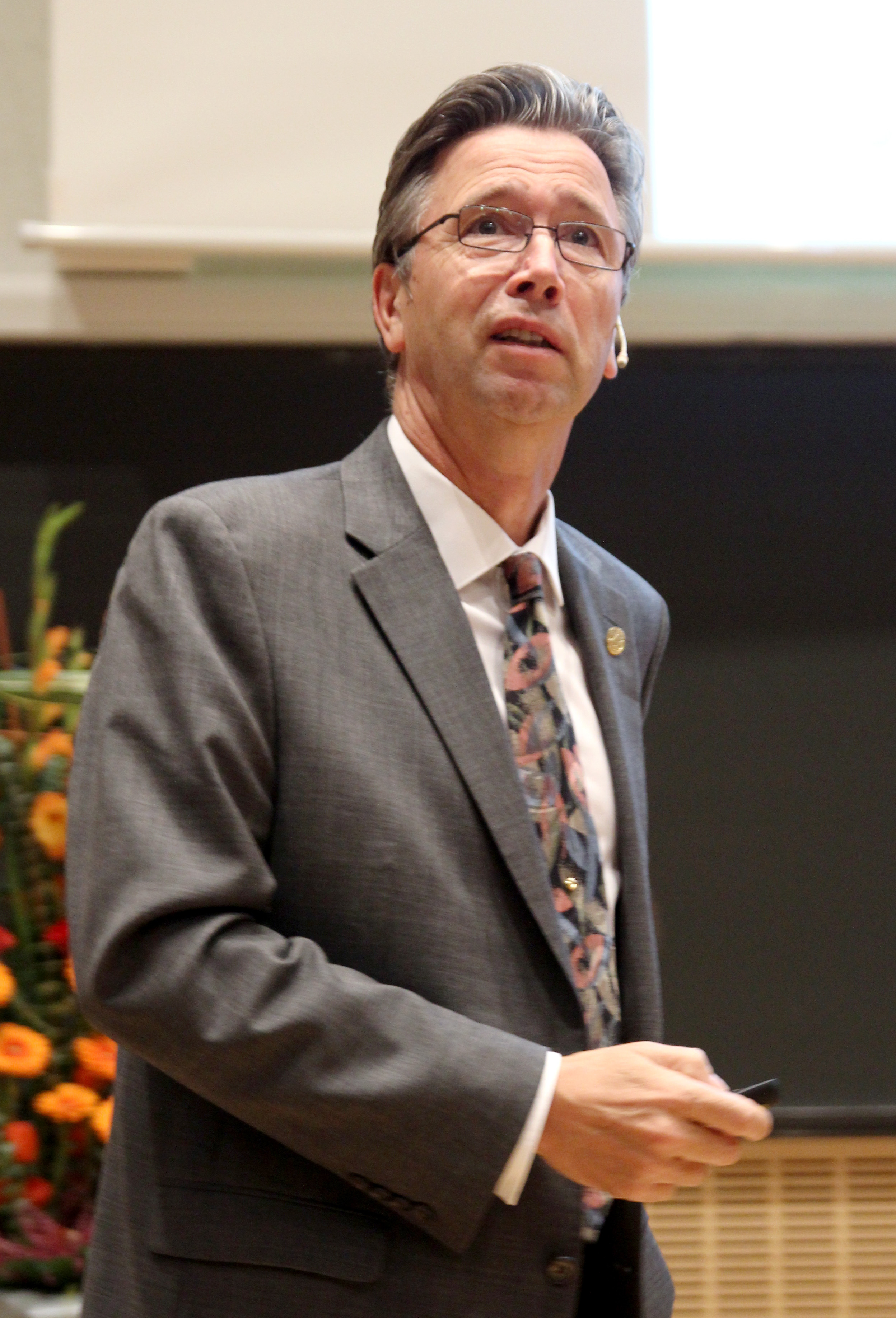 Thomas Ebbesen